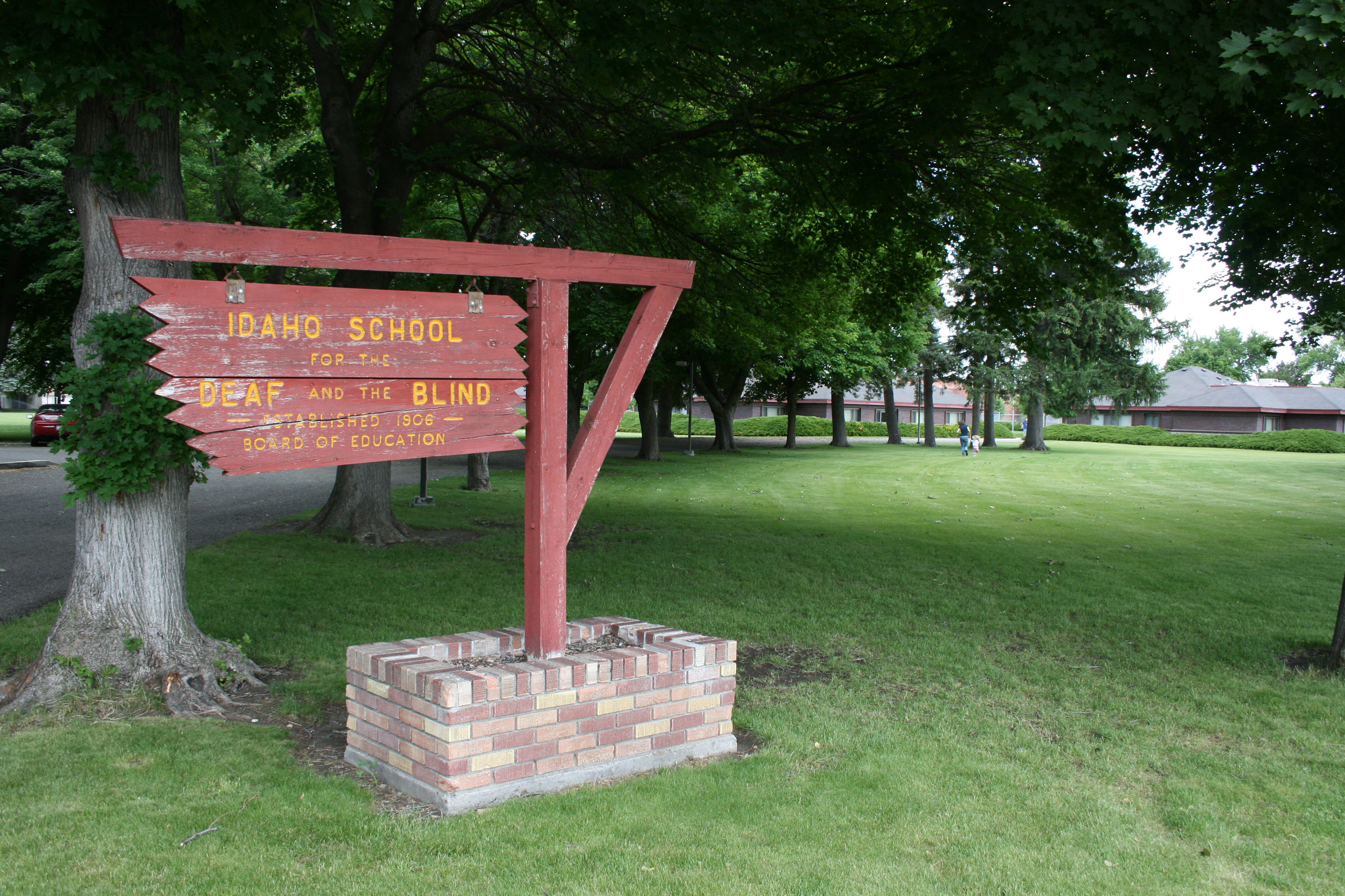 Photographer: myself, Gh5046 A photo of some of the grounds for the Idaho School for the Deaf and the Blind taken 2007/06/08 in Gooding, Idaho. Some of the dormitories can be seen in the background. The photo has been resized, otherwise is in its original state.